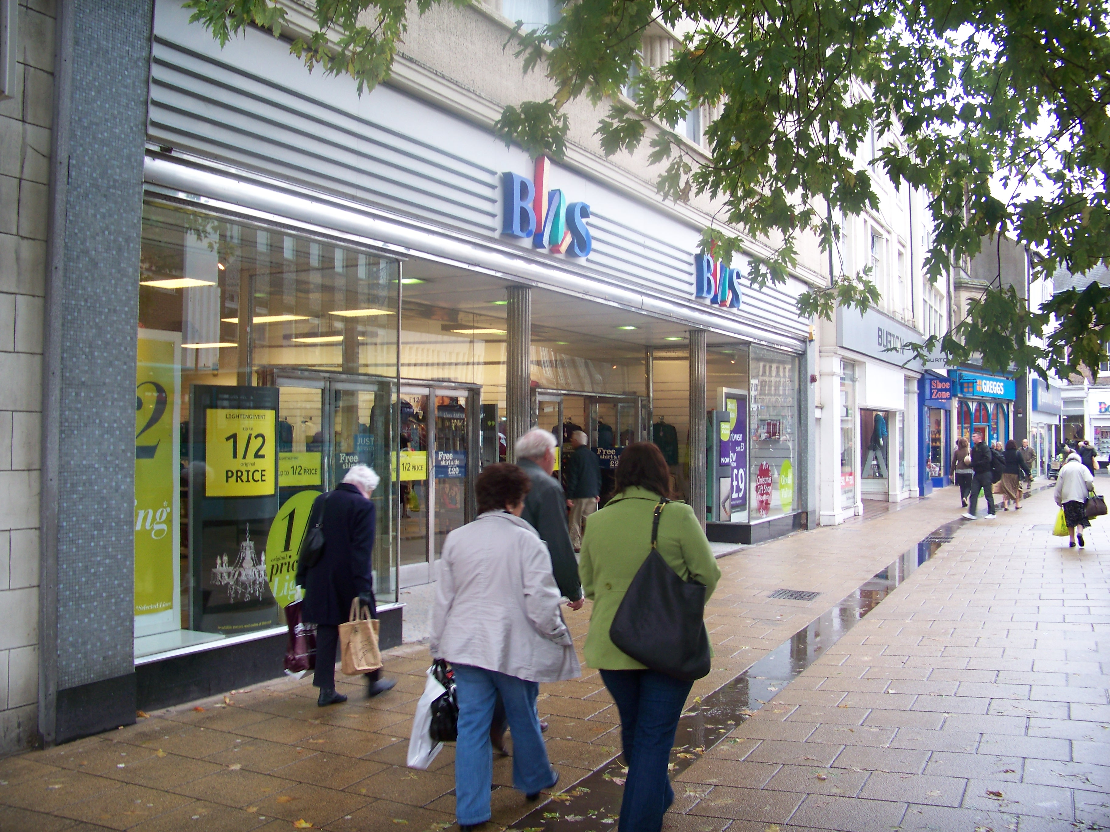 BHS in Darlington. Taken on a Monday in October 2009.